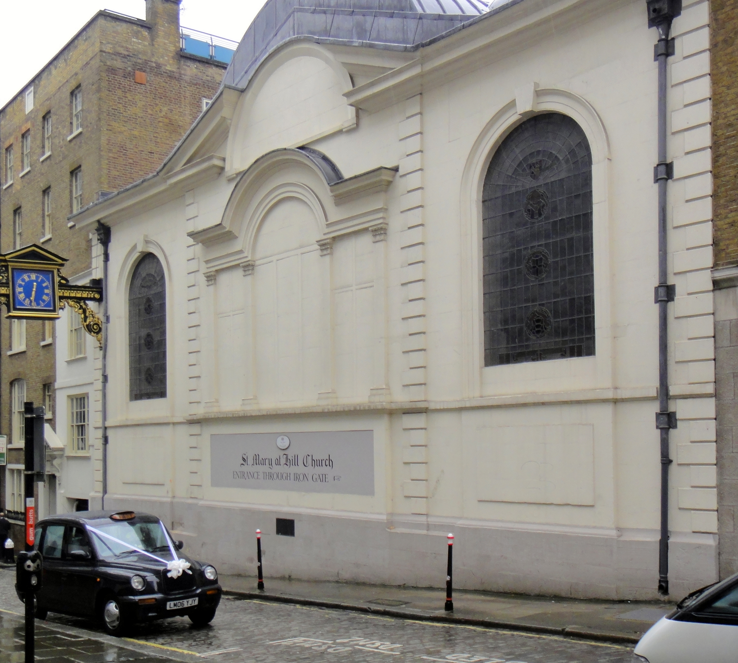 St-Mary-at-Hill, City of London